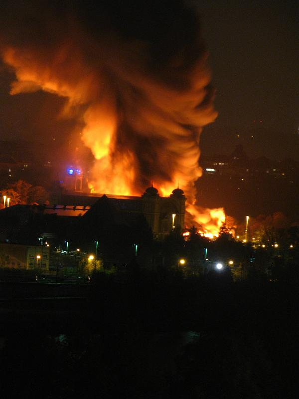 Fire in Průmyslový palác, Prague, Czech Republic.